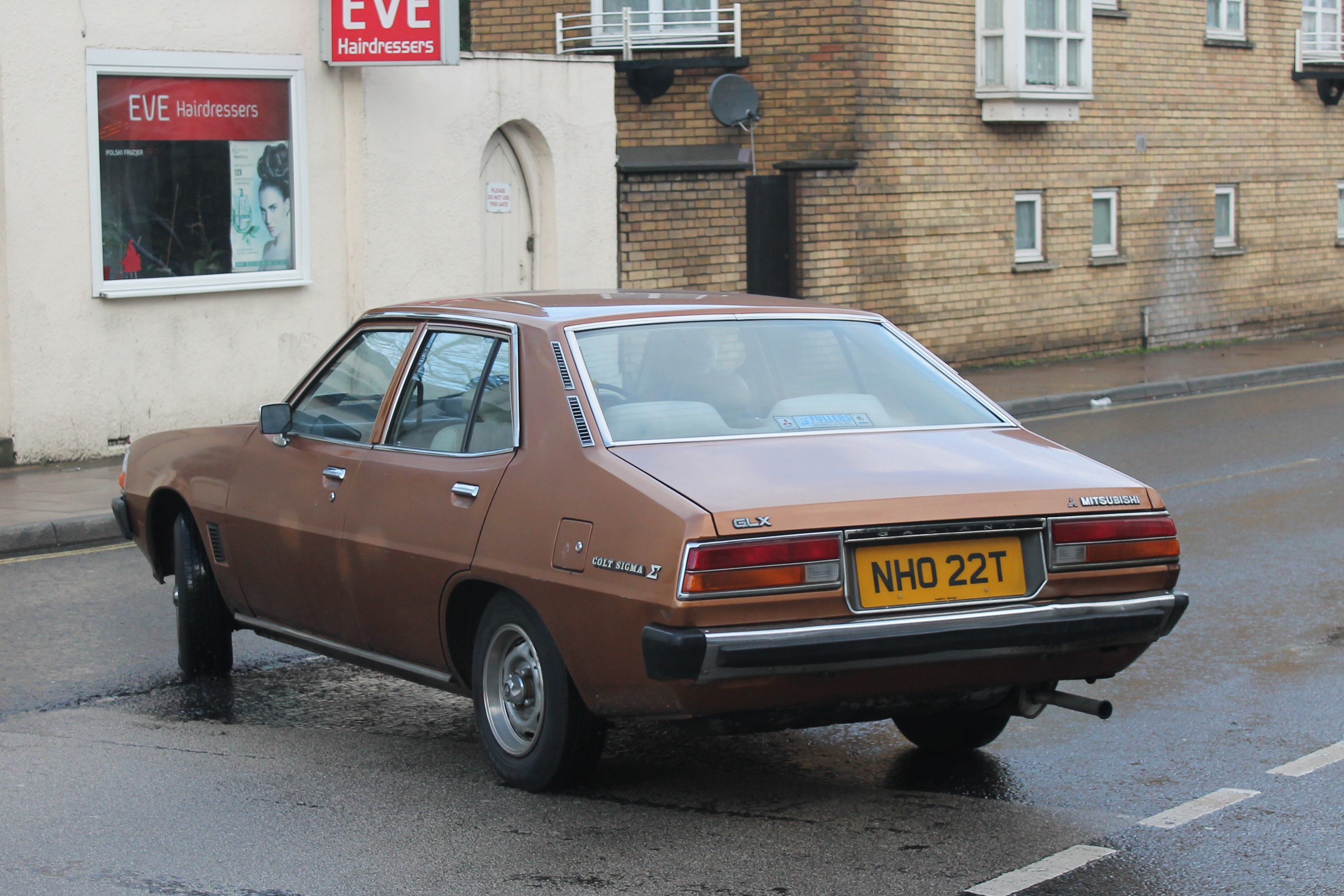 Possibly my best ever UK find is this delight. I was walking up to the junction when I heard this coughing and spluttering old engine and I thought "hang on a minute, that sounds like an interesting car". And lo and behold, this came around the corner with an elderly gentleman at the wheel. He then proceeded to thrash it out into the main road here, very slowly! Talk about being in the right place at the right time, 30 seconds either side and I would've missed it! Well, it was a rather nice 1978 registered Colt Sigma (full name Mitsubishi Galant Colt Sigma GLX!) It was in such a great period brown colour, and the interior looked very brown too! I think it's fantastically good looking in that 70s Japanese way. It looked very well looked after too, and original, the plus side of OAP ownership. Good to see he intends to hold on to it, as it's taxed well into this year. This is one of just four Colt Sigmas on the road, and two are on SORN. The vehicle details for NHO 22T are: Date of Liability 01 10 2014 Date of First Registration 08 12 1978 Year of Manufacture 1978 Cylinder Capacity (cc) 1995cc CO₂ Emissions Not Available Fuel Type PETROL Export Marker N Vehicle Status Licence Not Due Vehicle Colour BROWN Vehicle Type Approval Not Available